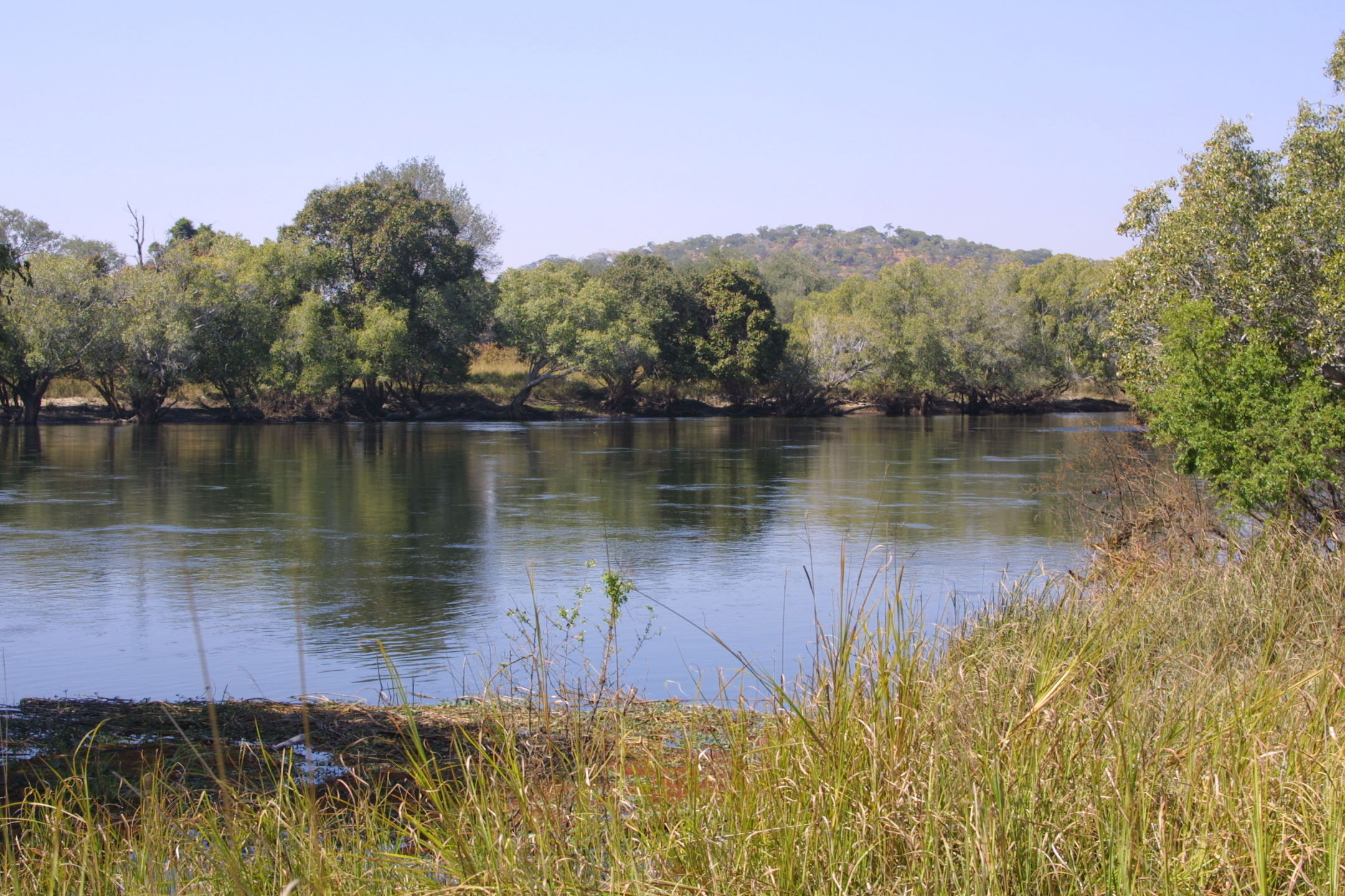 Kafue river, near Lubungu pontoon, 2001, taken & submitted by Paul Maritz (paulmaz)